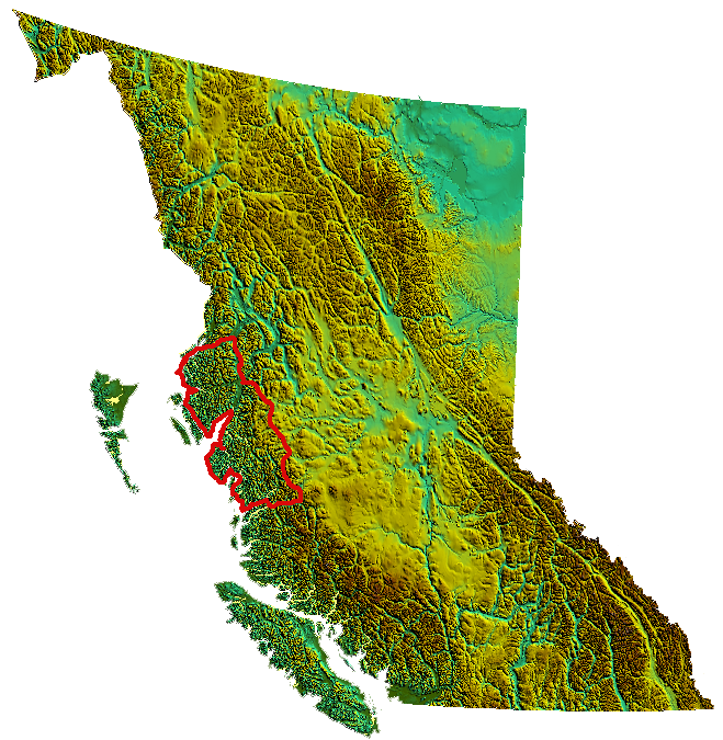 Adapted from BC-relief.png, which is in Wikipedia Commons. Line added by editor Skookum